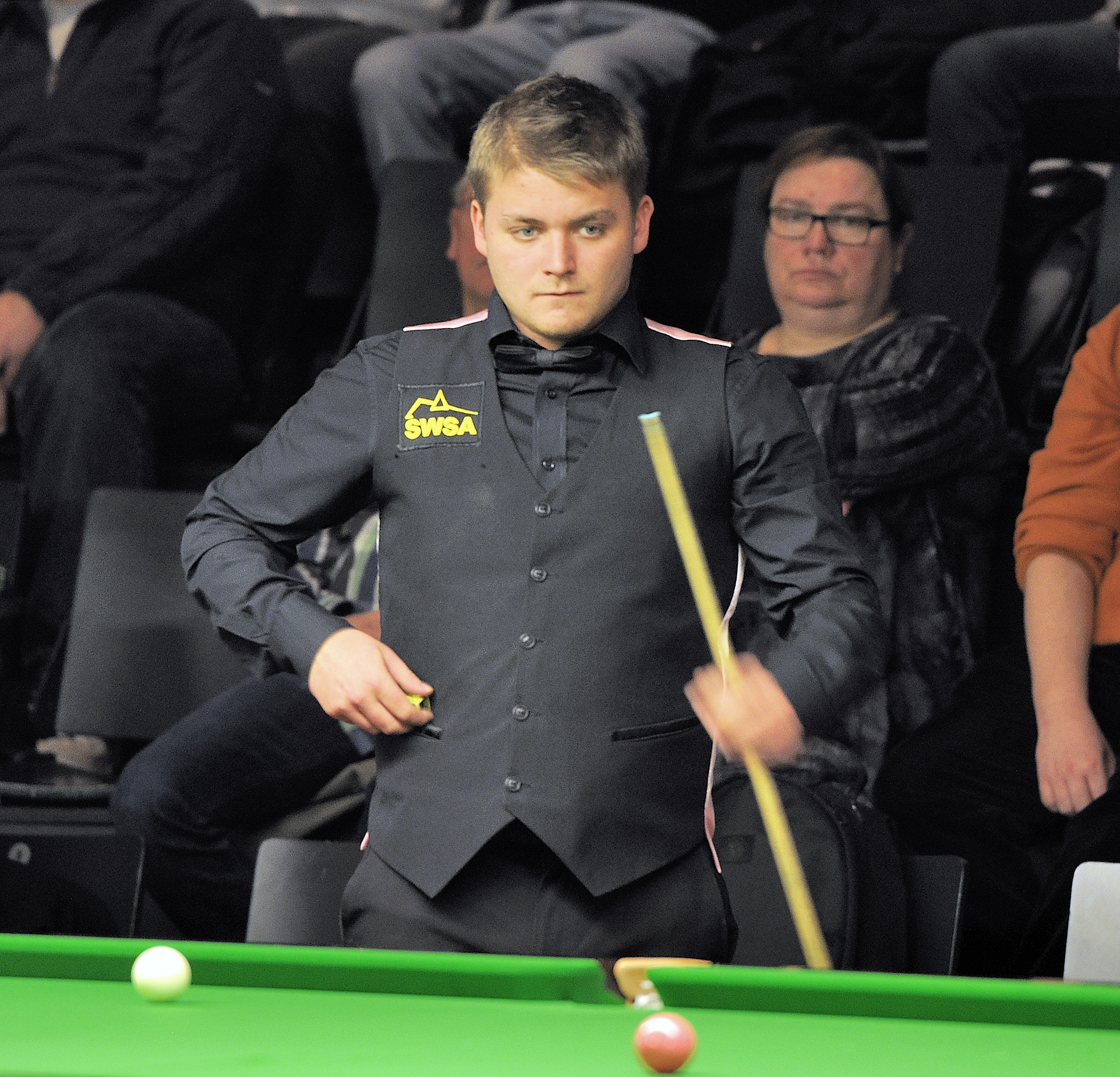 Picture taken in Berlin during the Snooker German Masters in 2014. Michael White.